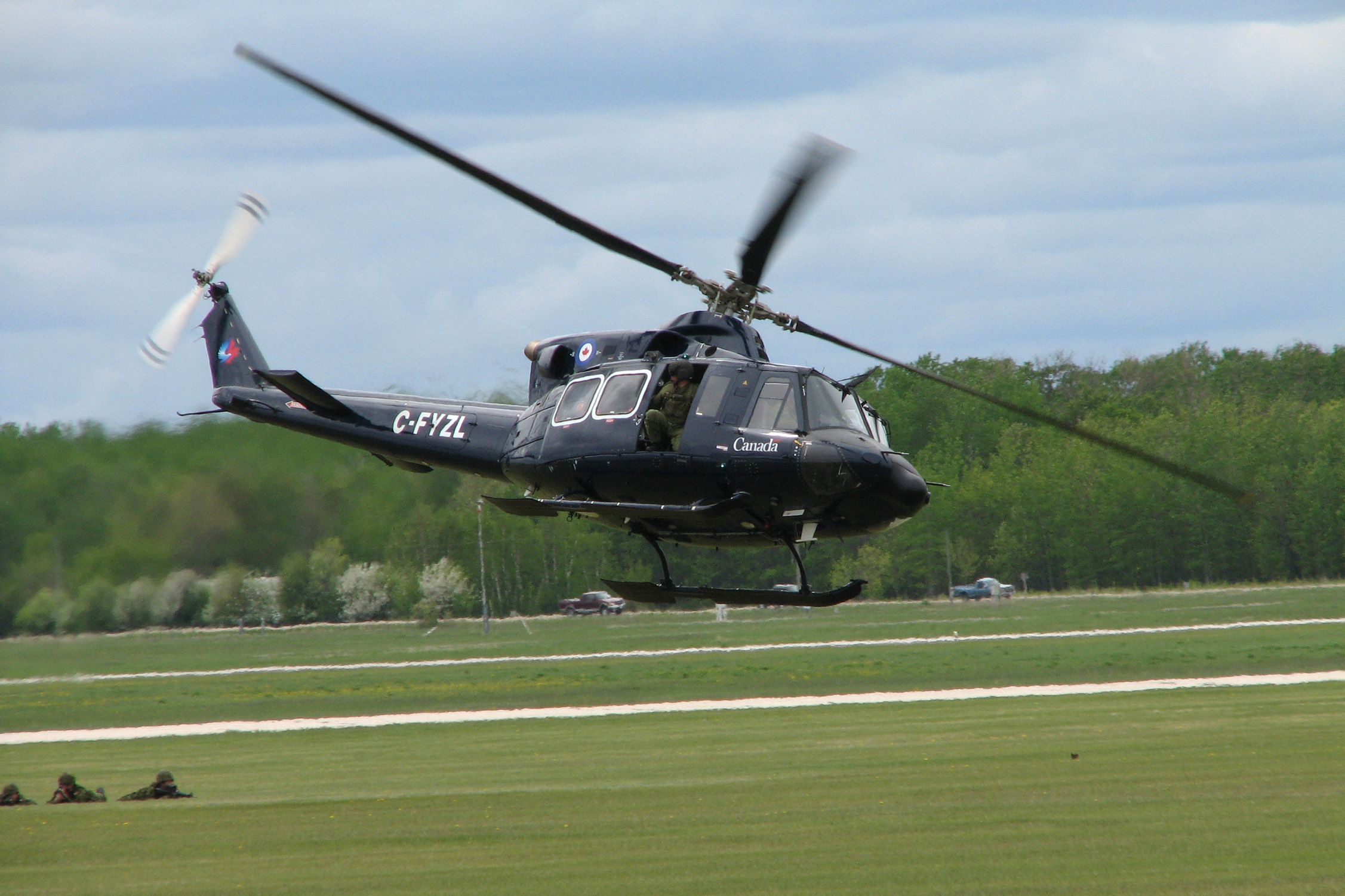 A retired CH-146 Griffon painted blue, known as an Outlaw, and currently being used as a trainer helicopter for Griffon pilots. Photo taken during an army demonstration at the 2009 Portage-la-Prairie air show.